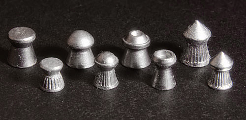 Air gun pellets. Top row .22, bottom .177 caliber. Left to right: flat (wadcutter) • domed (round nose) • hollow point • pointed